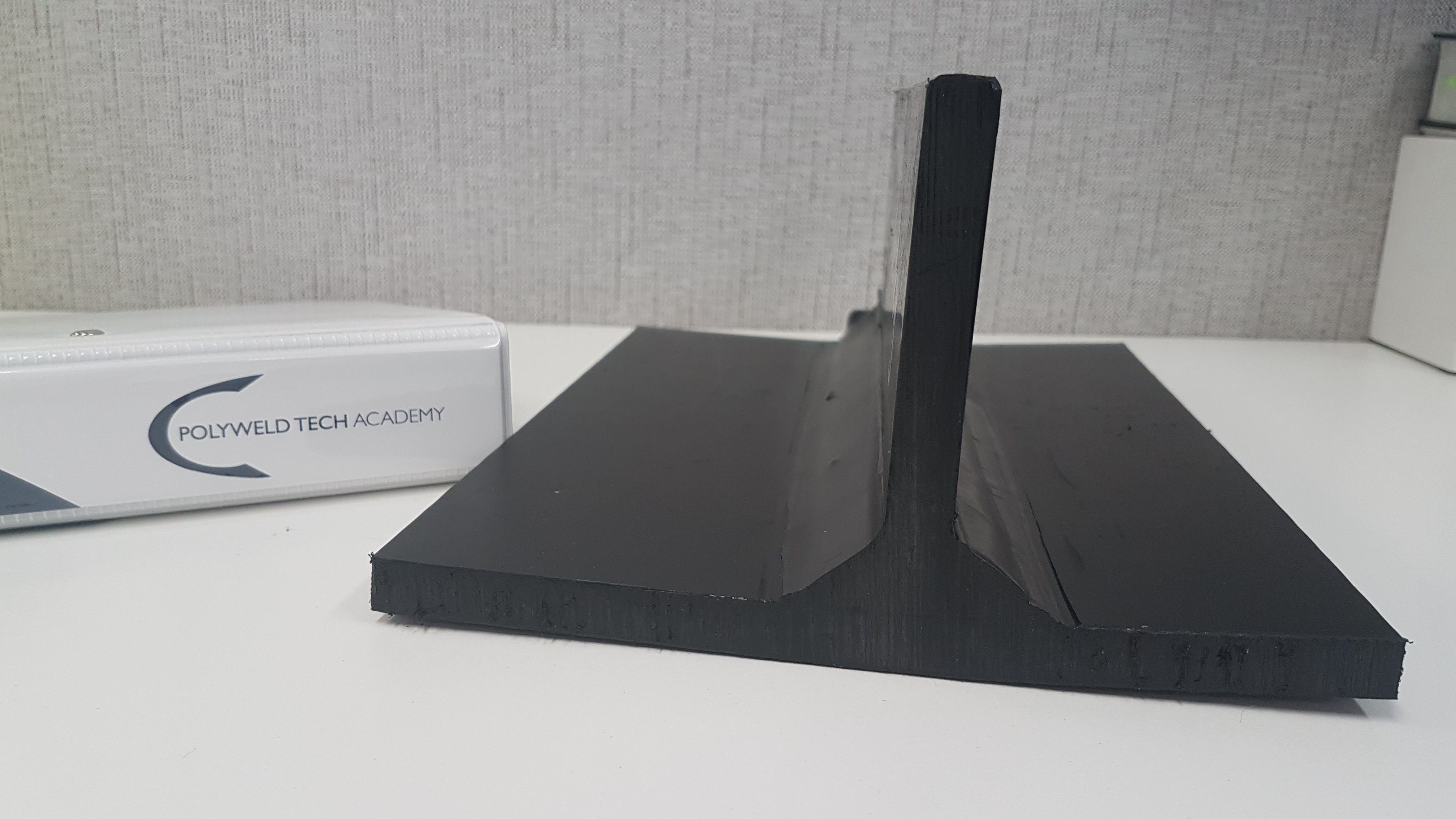 A cut cross section of a T Joint.